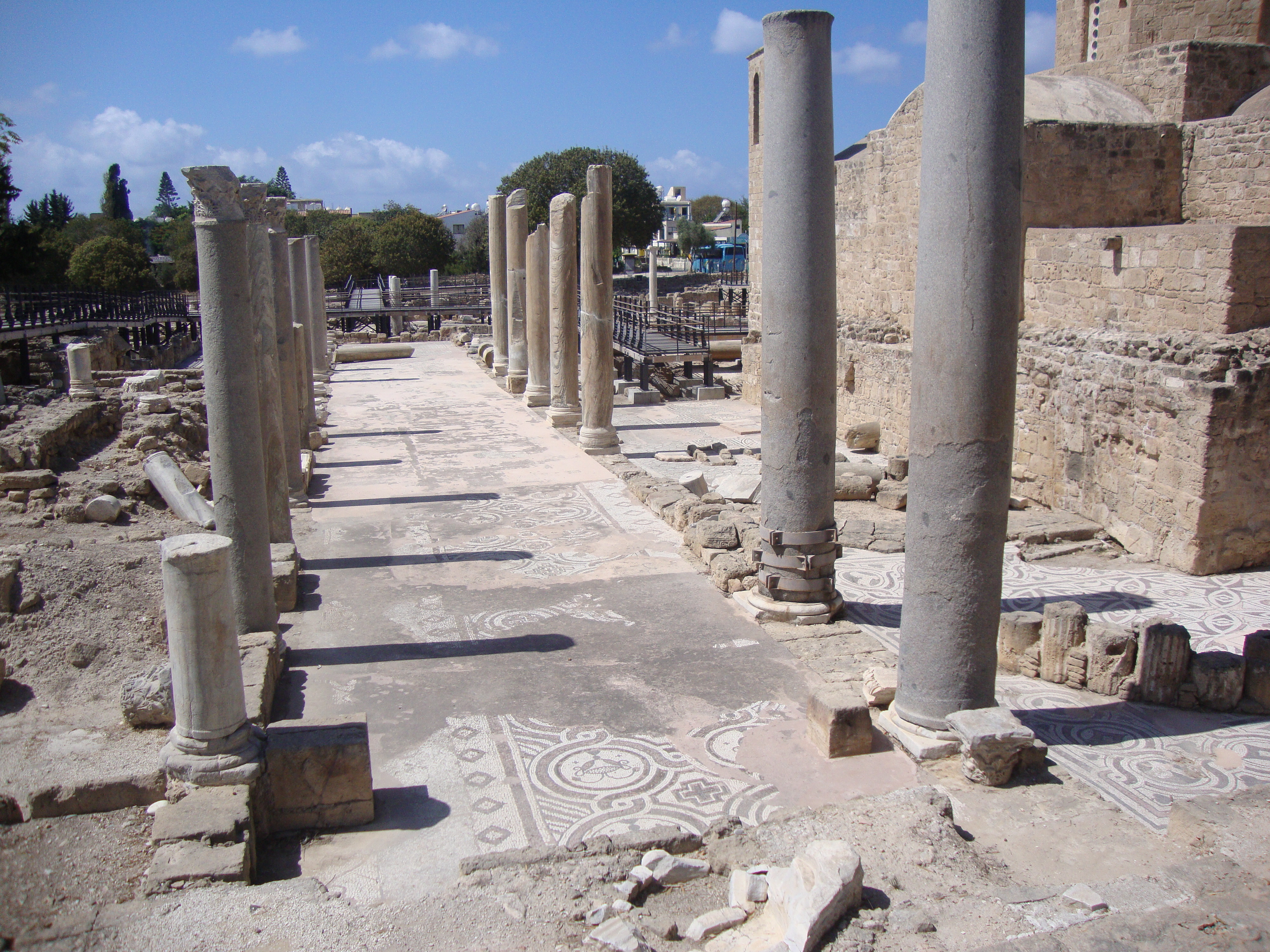 Byzantine basilica Panagia Chrysopolitissa. 09.2013